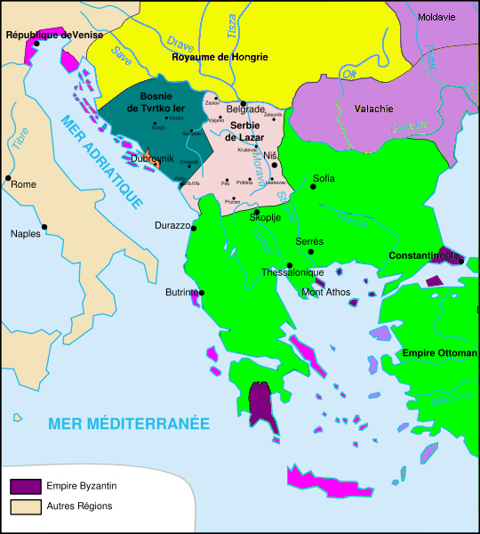 Serbia at the end of Lazar's rule